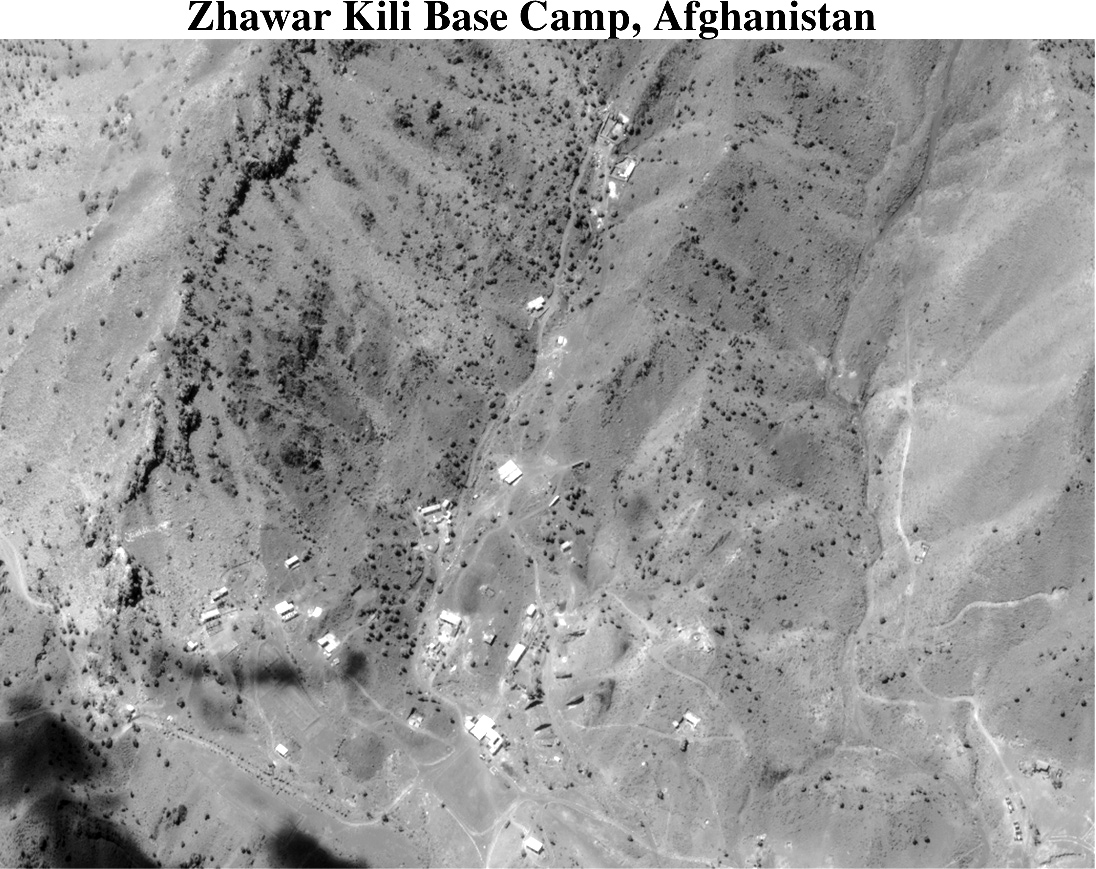 Photograph of the Zhawar Kili Base Camp, Afghanistan, used by Secretary of Defense William S. Cohen and Gen. Henry H. Shelton, U.S. Army, chairman, Joint Chiefs of Staff, to brief reporters in the Pentagon on the U.S. military strike on a chemical weapons plant in Sudan and terrorist training camps in Afghanistan on Aug. 20, 1998.